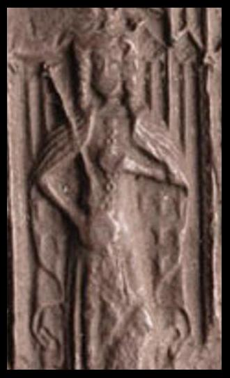 Muireadhach, Duke of Albany, as depicted on a seal